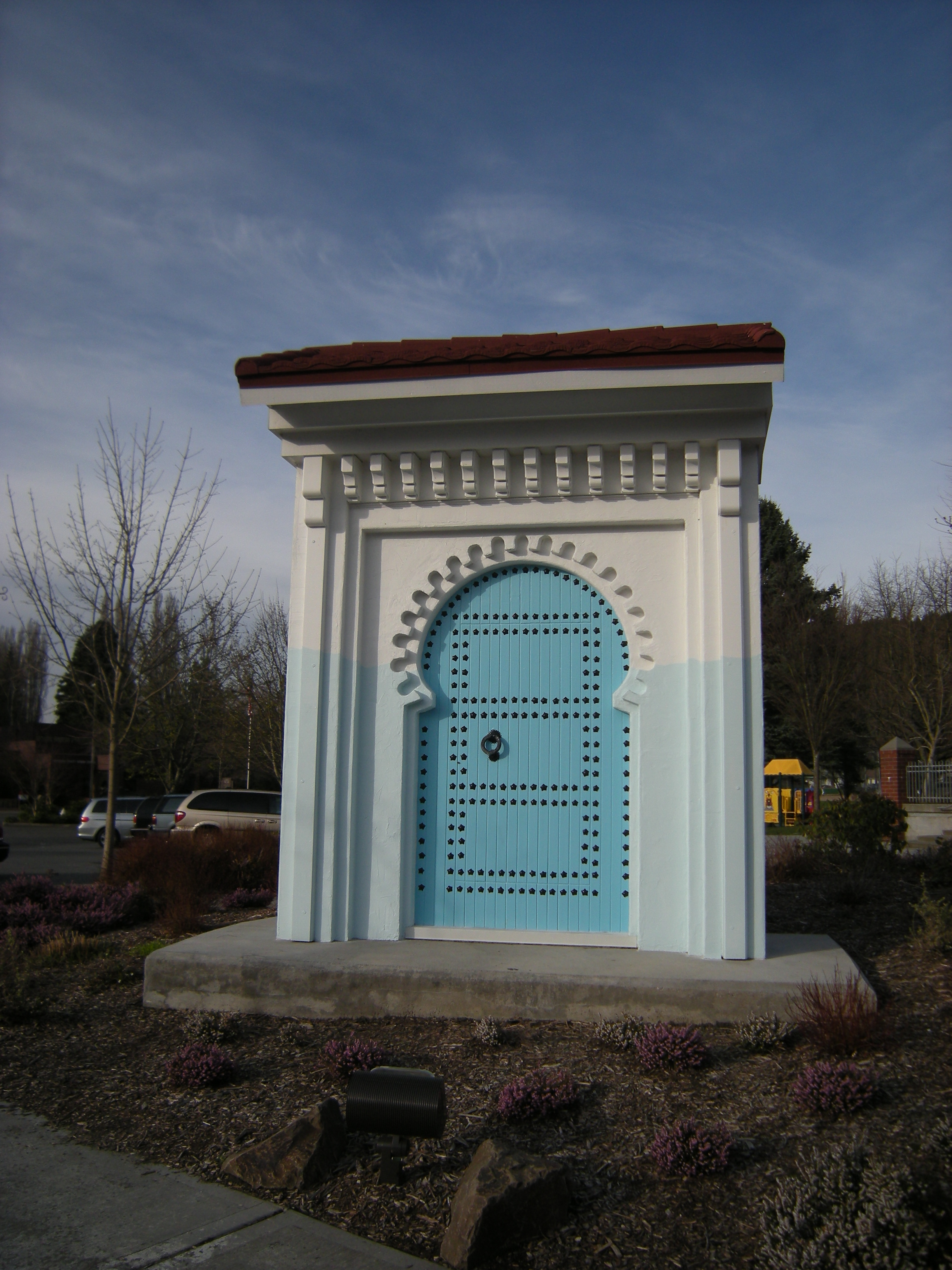 This door on display outside City Hall in Issaquah, Washington was a gift from Issaquah's sister city Chefchaouen, Morocco. See File:Issaquah City Hall 03.jpg for more of a context.